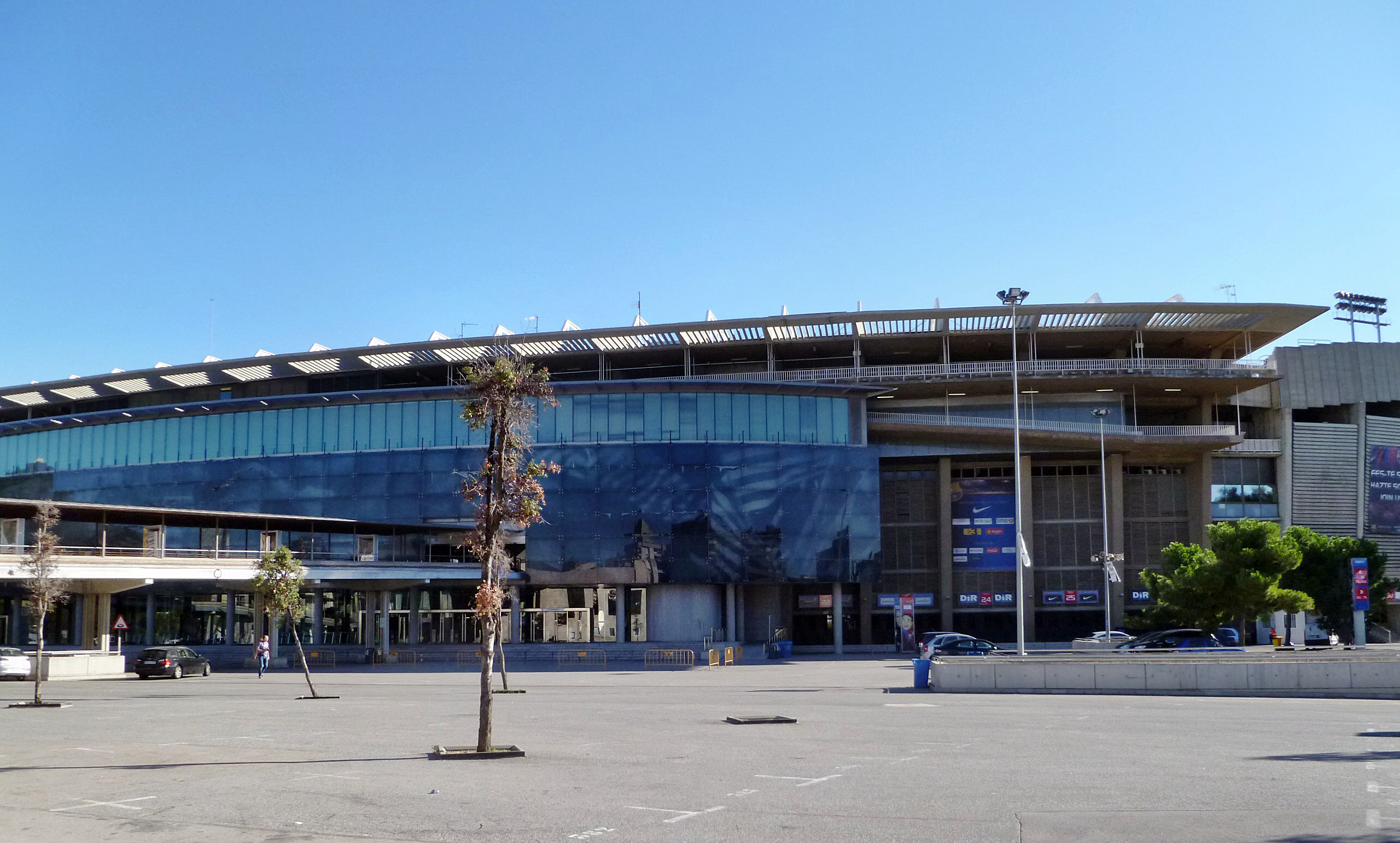 Camp Nou, football stadium of F.C. Barcelona, Barcelona, Catalonia, Spain